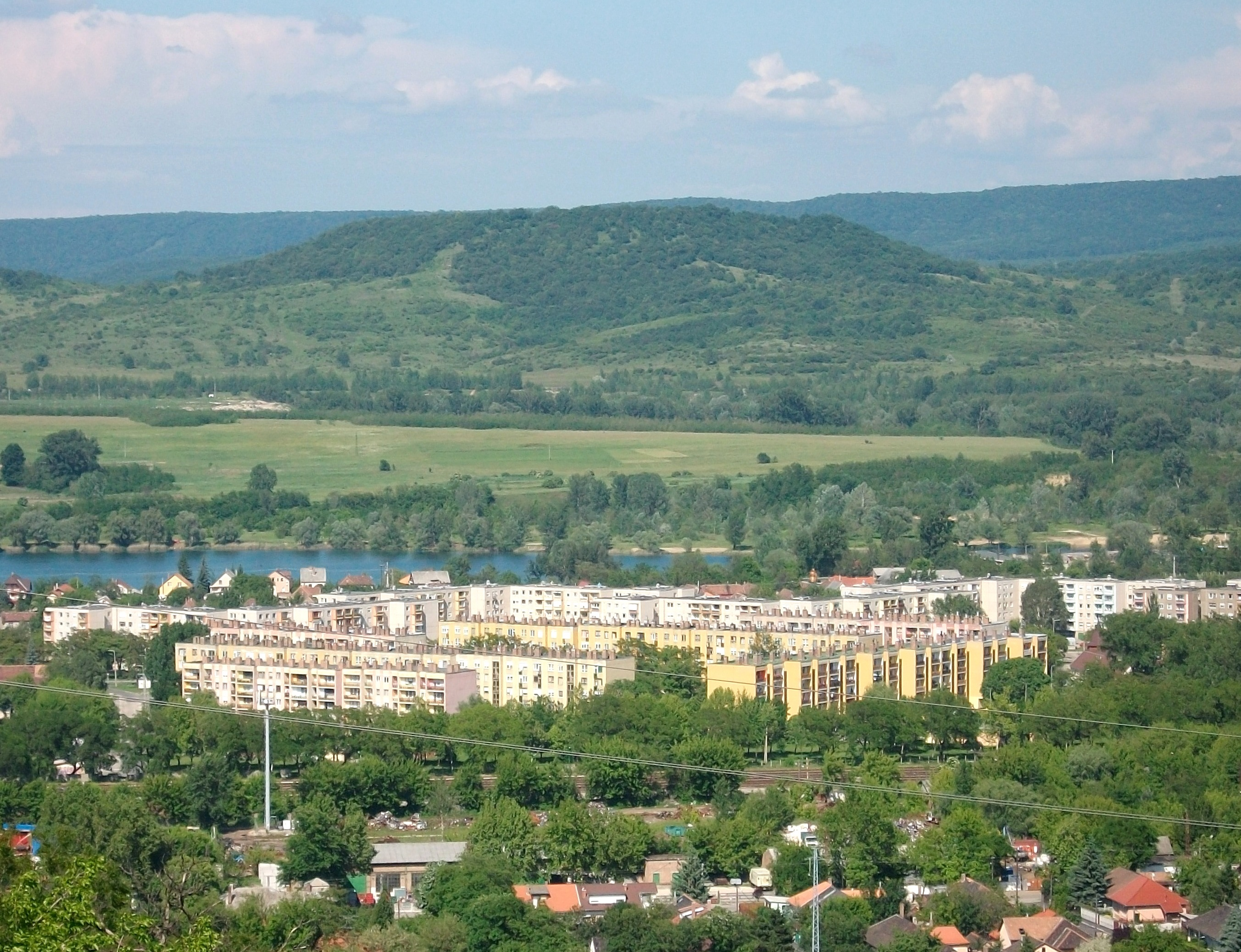 Schmidt and Zsigmondy housing estates, Dorog, Hungary